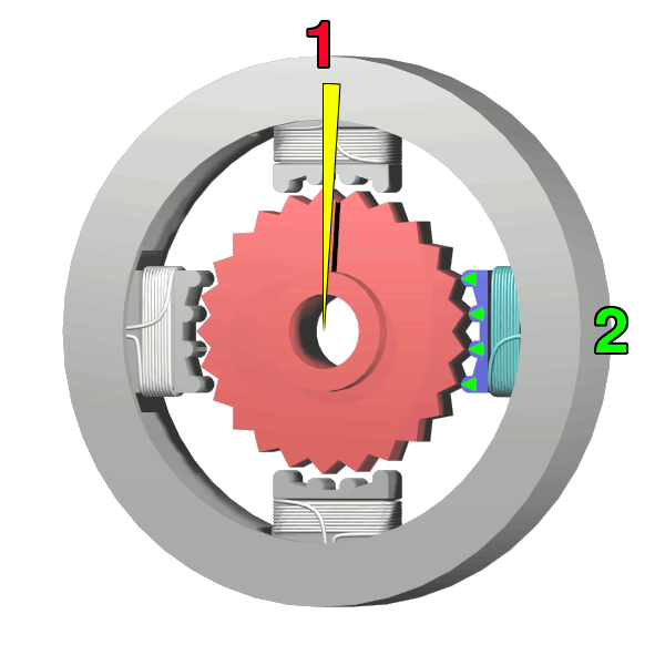 Illustration of a stepper motor. Created by Wapcaplet using Blender and the GIMP.